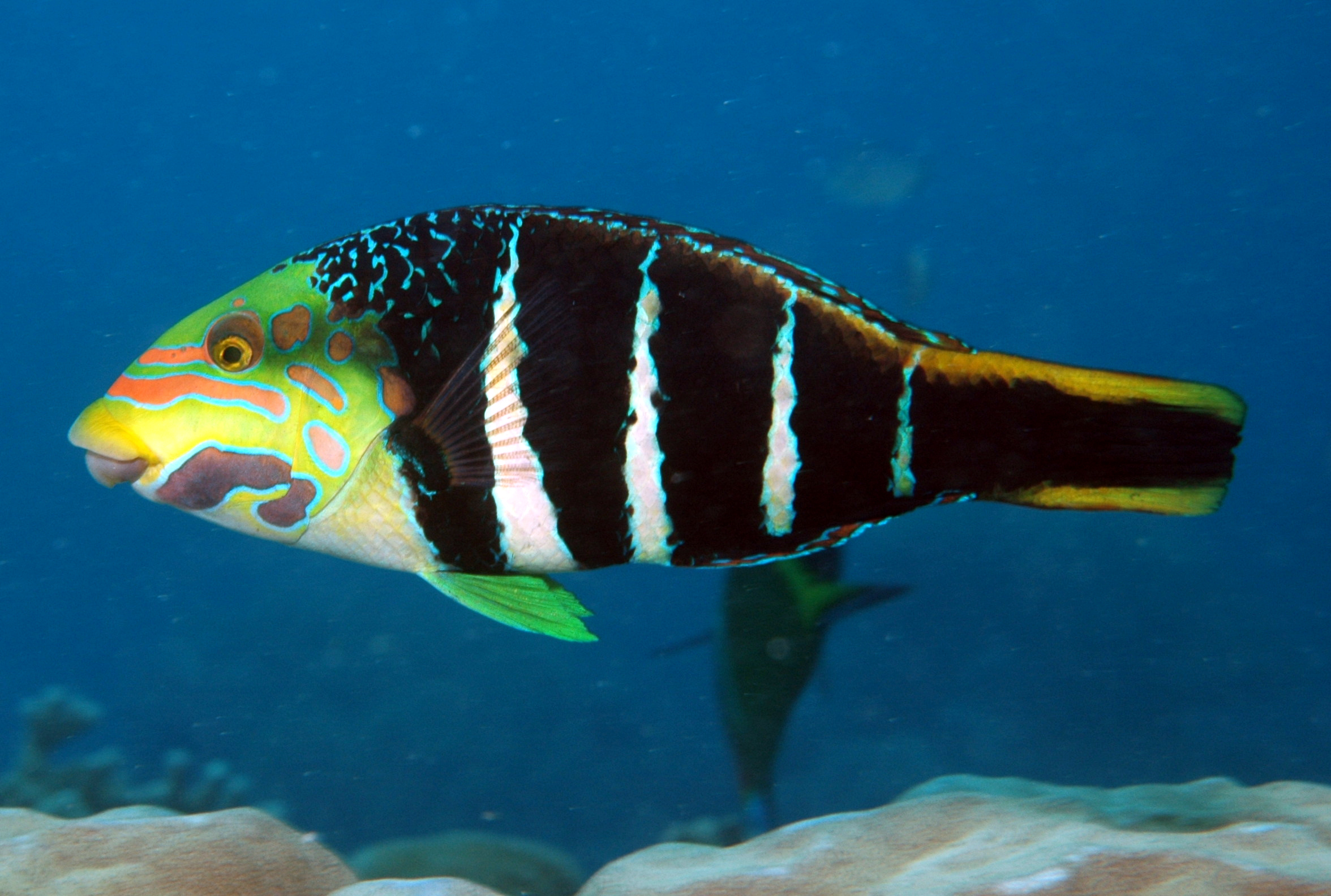 Hemigymnus fasciatusGreat Barrier Reef, Cairns, Australia